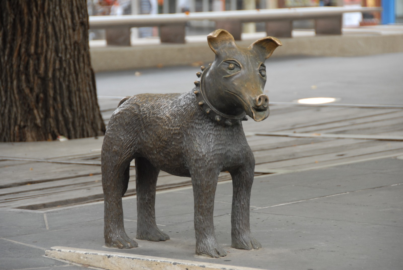 Photograph of bronze statue Larry La Trobe created by artist Pamela Irving in 1992 and recast in 1996, Melbourne/Australia.